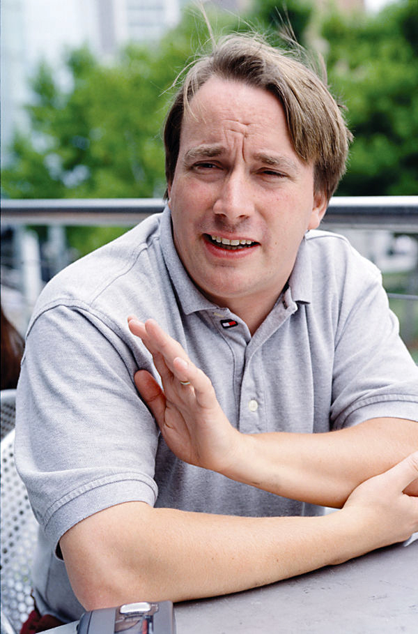 Linus Torvalds, creator of the Linux kernel.